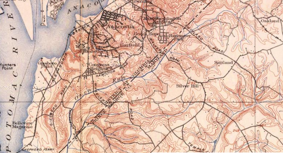 Section of a 1900 USGS map of Washington, DC showing Oxon Run